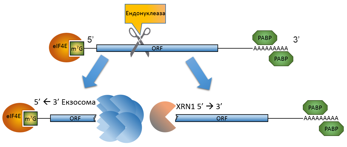 Endonuclease mediated mRNA cleavage with subsequent mRNA degradation